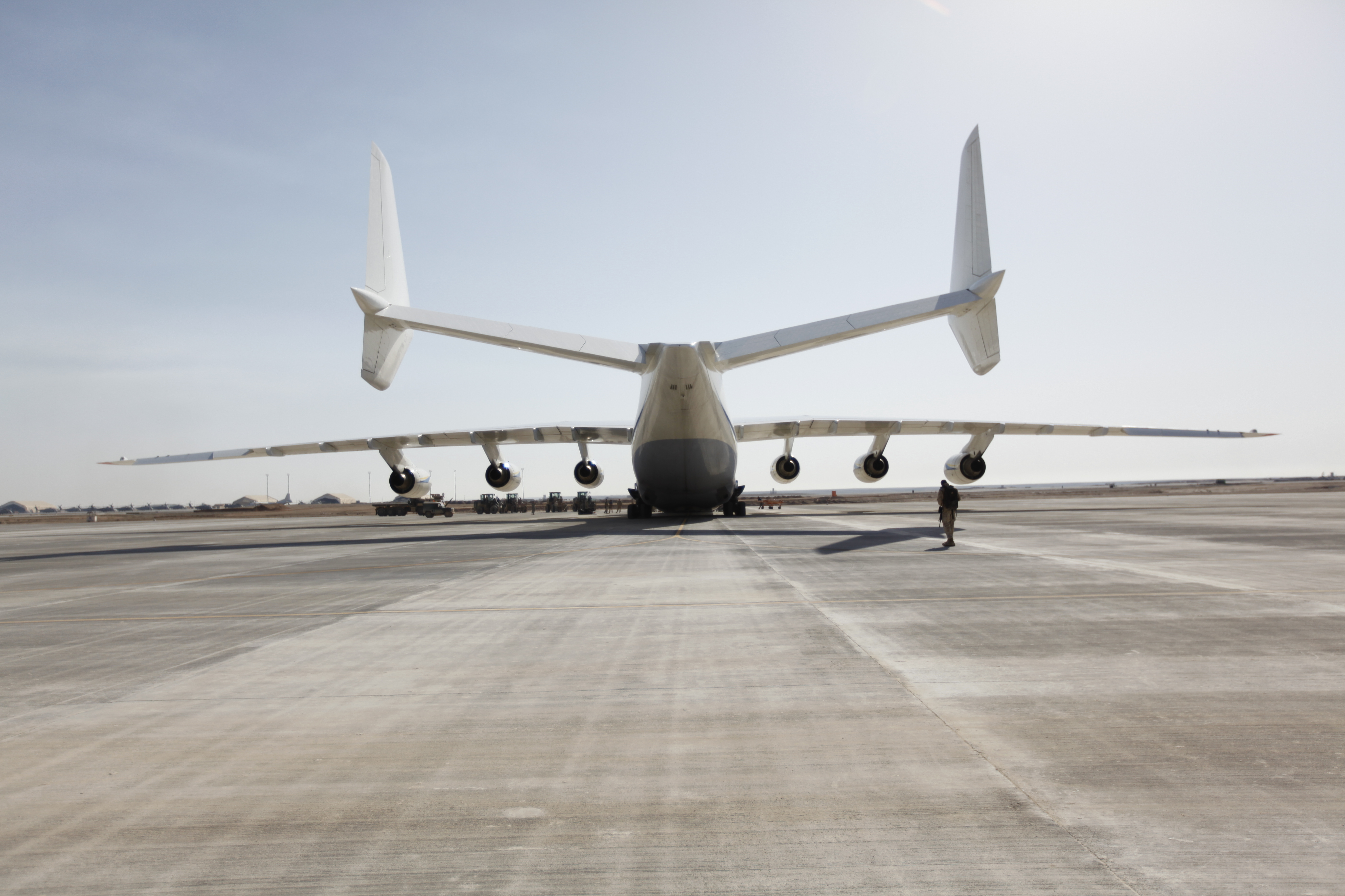 The Antonov An-225 touched down at Camp Bastion, Afghanistan, March 7. The largest and heaviest aircraft in the world, the one-of-a-kind An-225 is currently operated by Ukraine’s Antonov Airlines and contracted to carry large cargo and supplies around the world. (Photo ID: 375069)